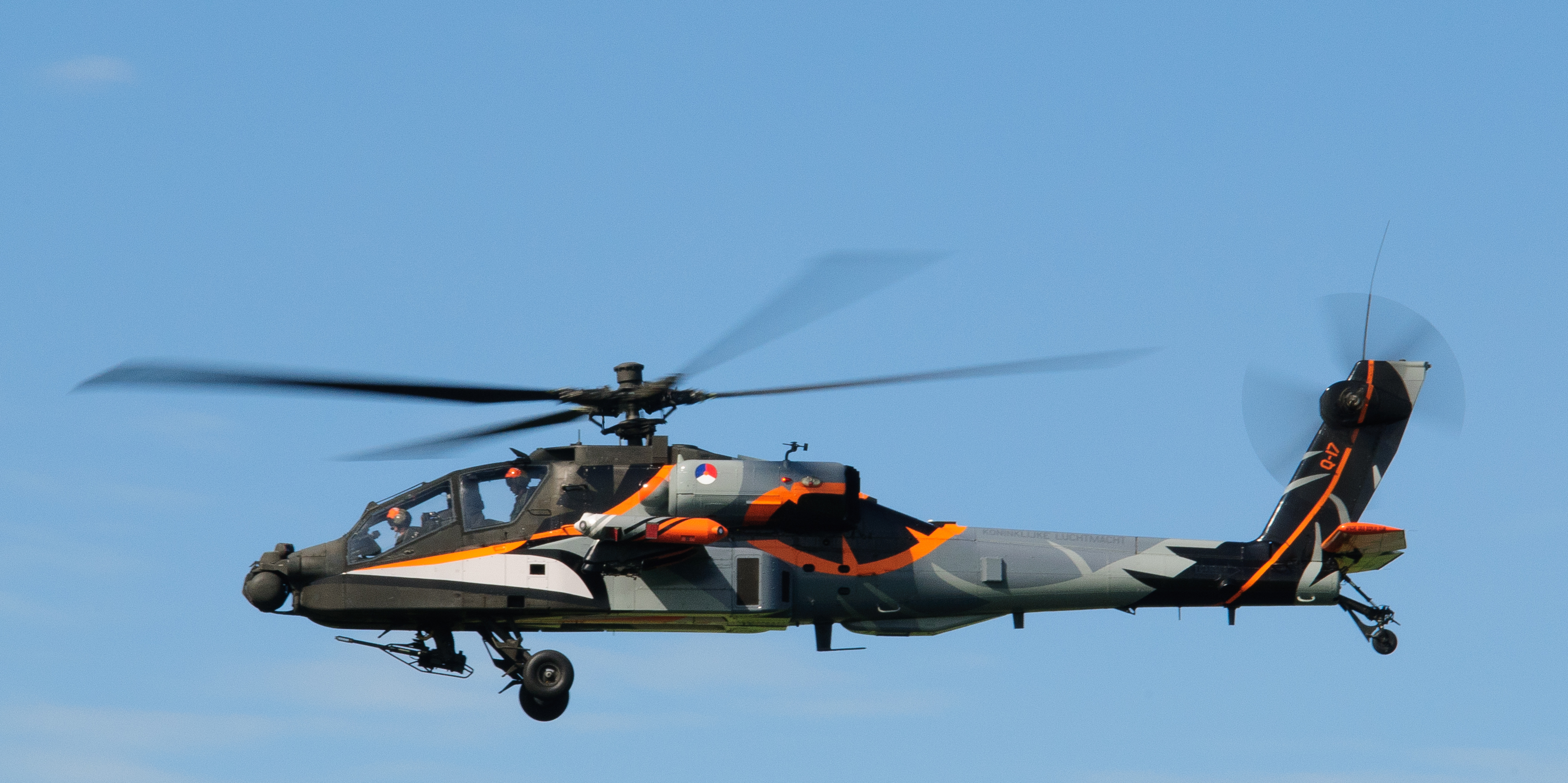 RNLAF Apache Solo Display. Major Roland “Wally” Blankenspoor and Captain Paul ‘Wokkel’ Webbink at the controls.